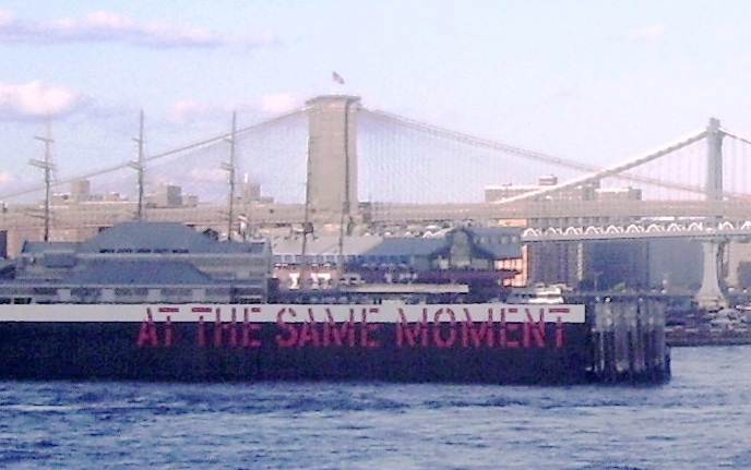 Lawrence Weiner's conceptual artwork "At the Same Moment" painted on pilings in the East River, as seen from the Staten island Ferry. Behind can be seen the Brooklyn Bridge and the Manhattan Bridge.